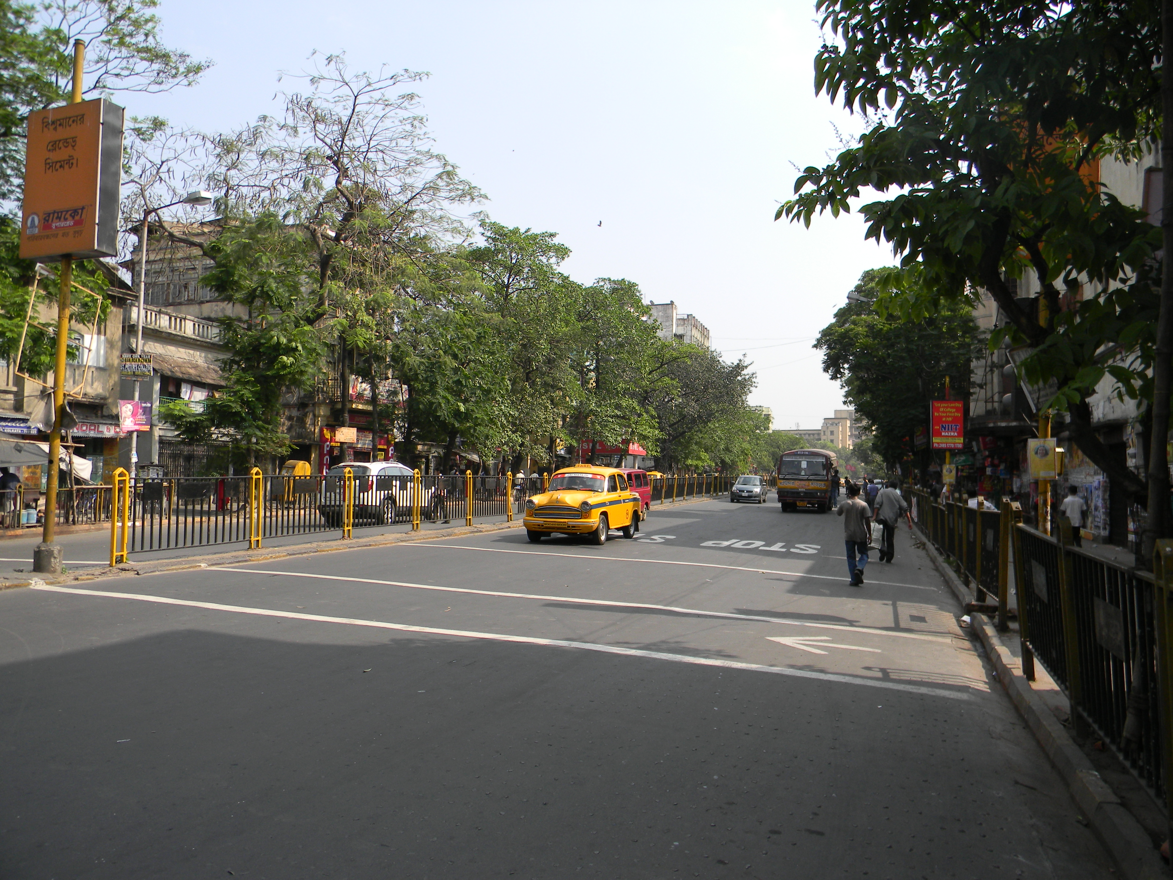 The Ashutosh Mukherjee road at Bhowanipore or Bhabanipur, which is the oldest locality of South Kolkata.